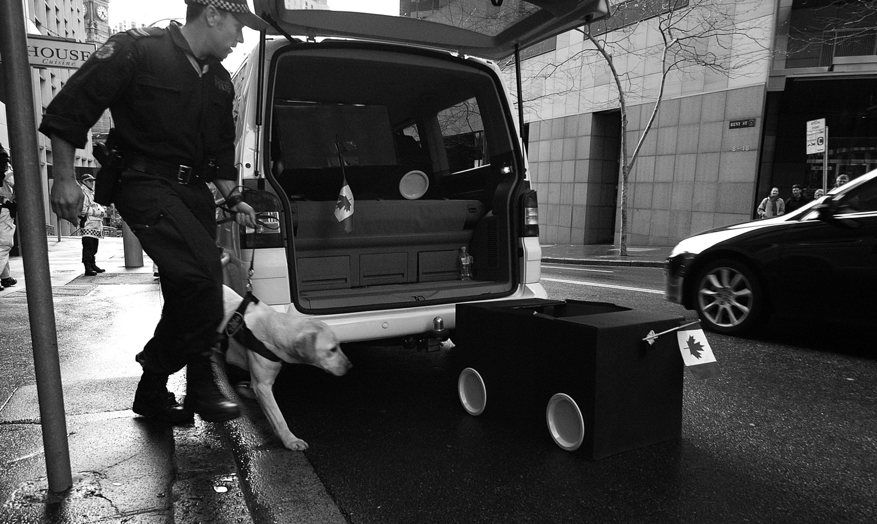 Police investigating vechile used by The Chaser on cardboard motorcade stunt 7 September 2007.